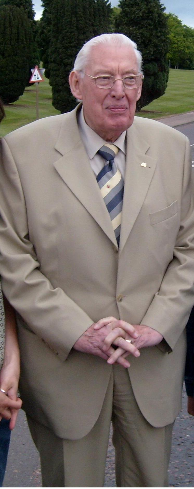 Photo of Ian Paisley taken on 14 May 2007 according to camera data. A cropped version is at Image:Ian Paisley - (cropped).png